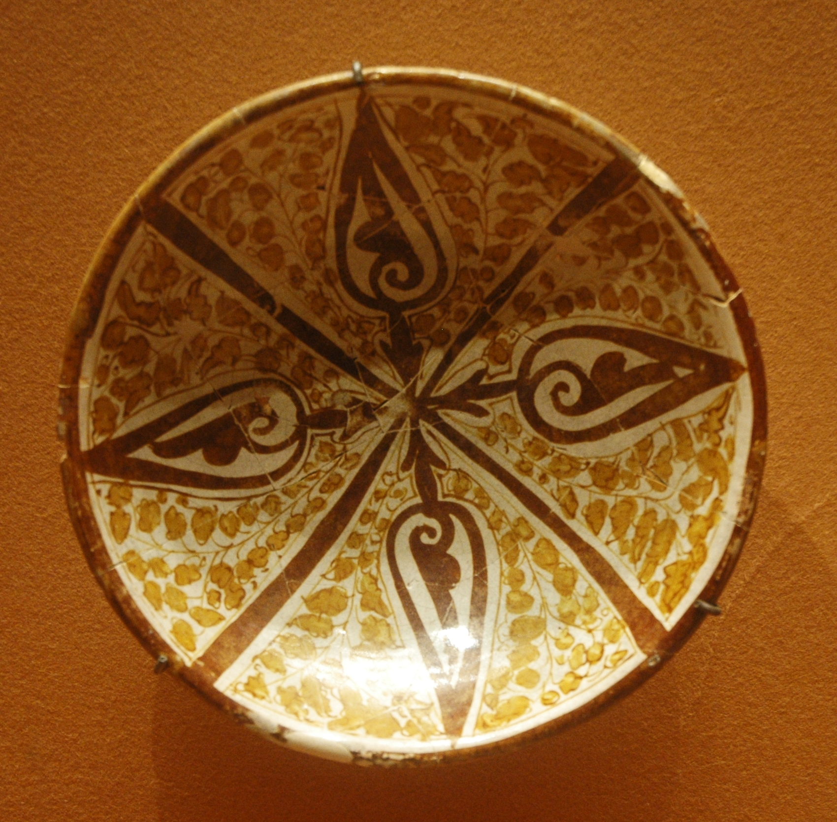 Cup with palmette decoration.